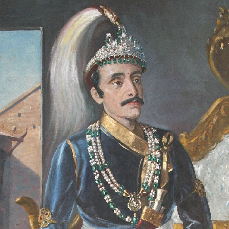 His Majesty King, Surendra Bir Bikram Shah (1847-1881), lebte 1829-1881